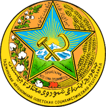 Coat of arms of Tajik ASSR (1929)